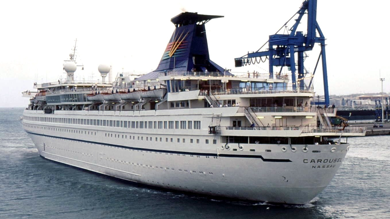 MV Carousel in Civitavecchia, Italy